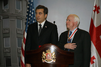 Senator McCain Visits Batumi, Georgia in January 2010. President Mikheil Saakashvili of Georgia awards a National Hero of Georgia order to Senator McCain